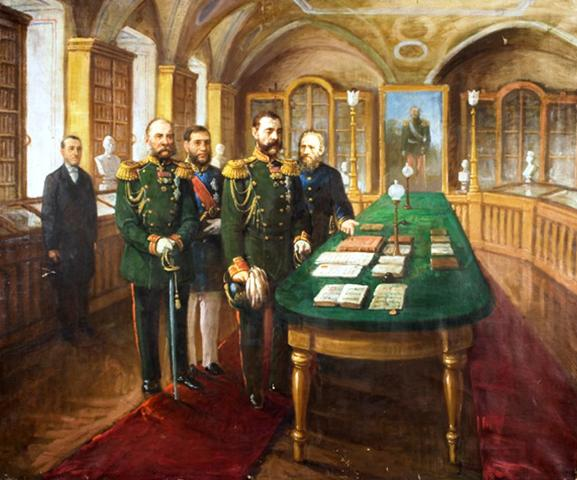 The opening of Vilnius Public Library on 24 May 1867 attended by Tsar Alexander II of Russia